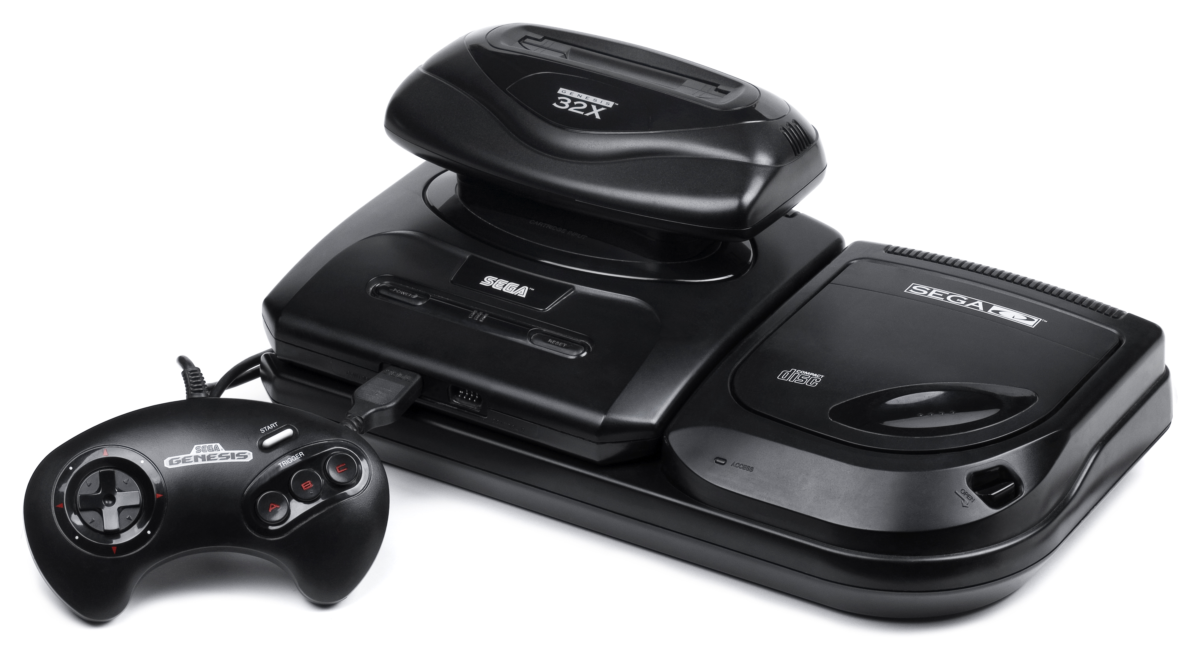 A Sega Genesis Model 2 shown attached to a Sega CD and a 32X.